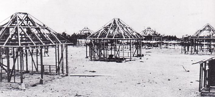 Kikakuyaa